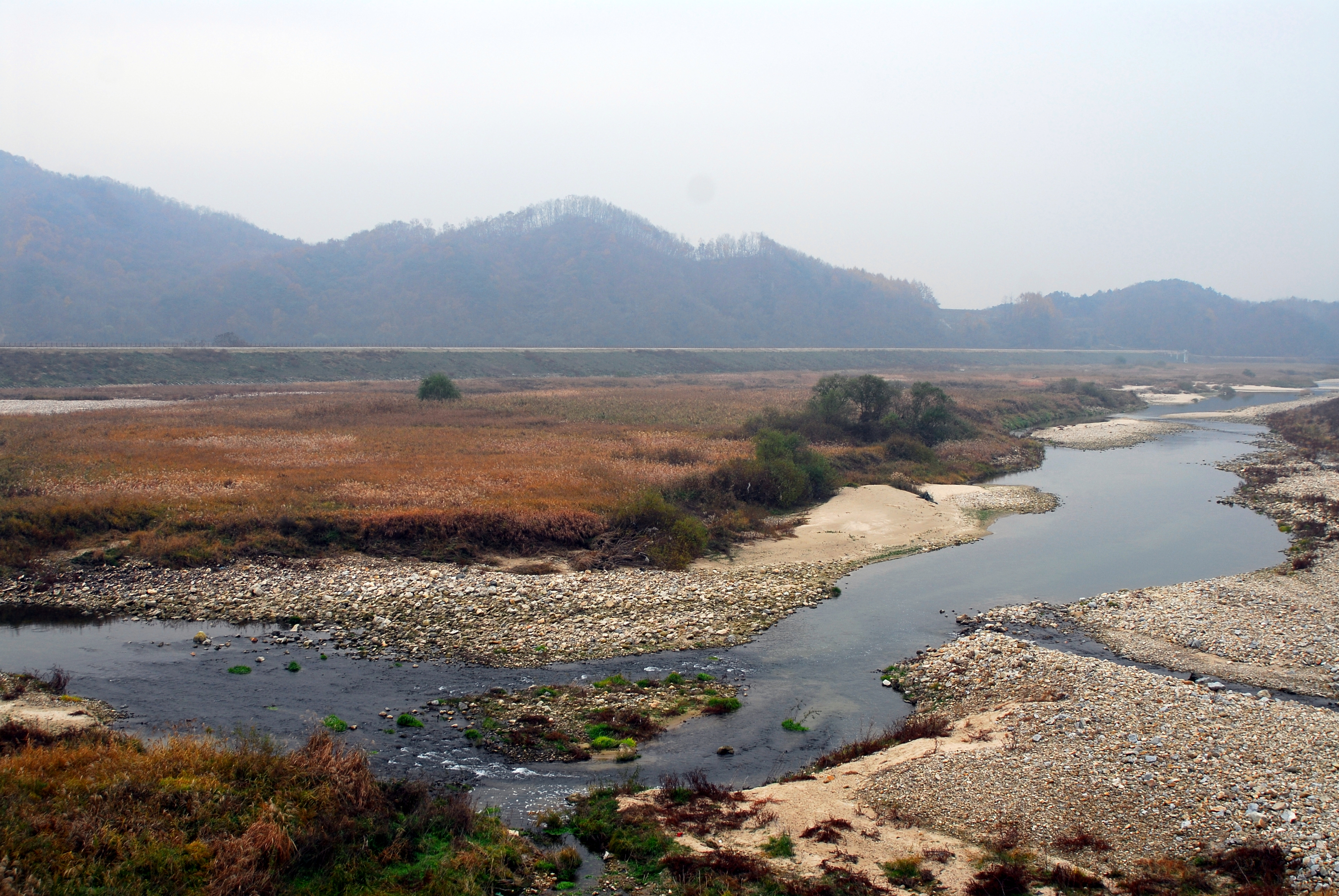 Looking Seom River on the way to the Heungbeopsa temple site